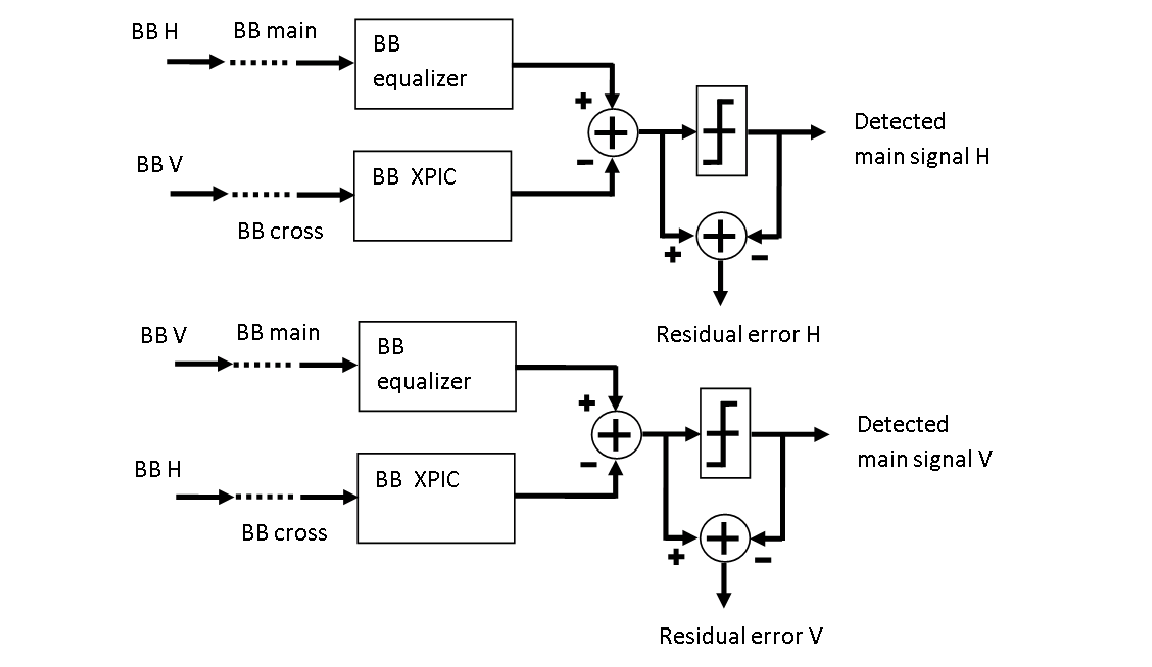 XPIC ex2